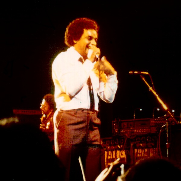 Singer Gary U.S. Bonds in Paris, France